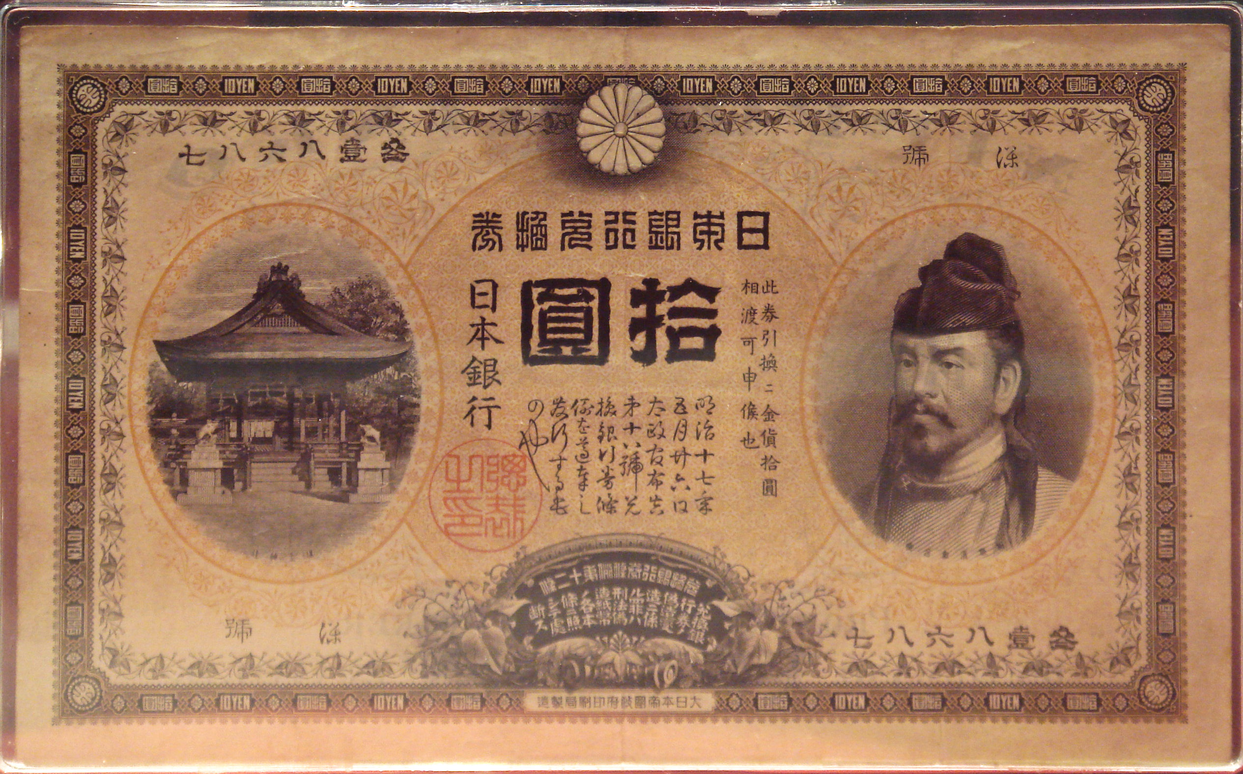 Bank of Japan gold convertible yen banknote 1900; images are of Go-ou Shrine (left) and Wake no Kiyomaro (right)